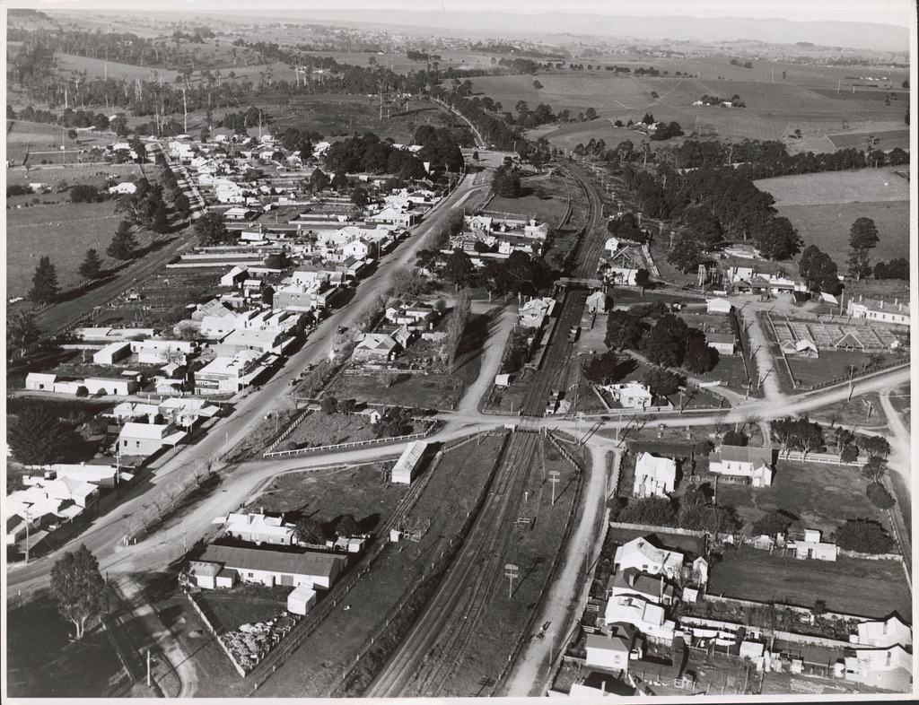 Aerial view of Drouin, Victoria, during World War II.